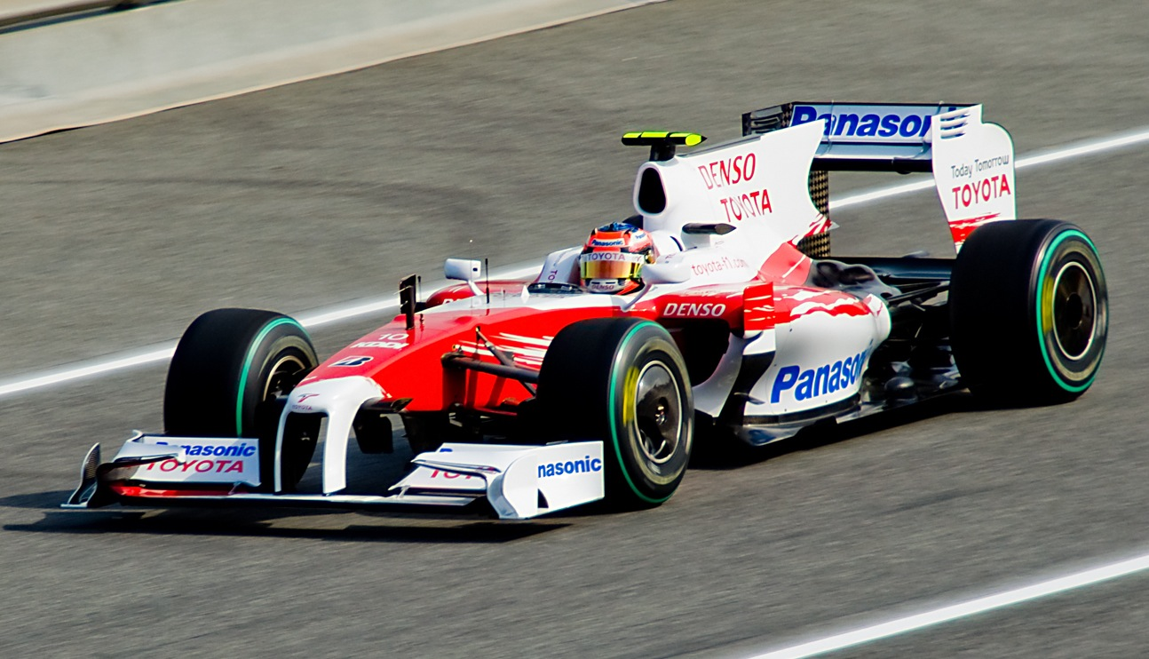 Glock Spain 2009Nikon D90 + Sigma 18-200 DC OS HSM 1/320s - F/10 - 200mm - ISO400